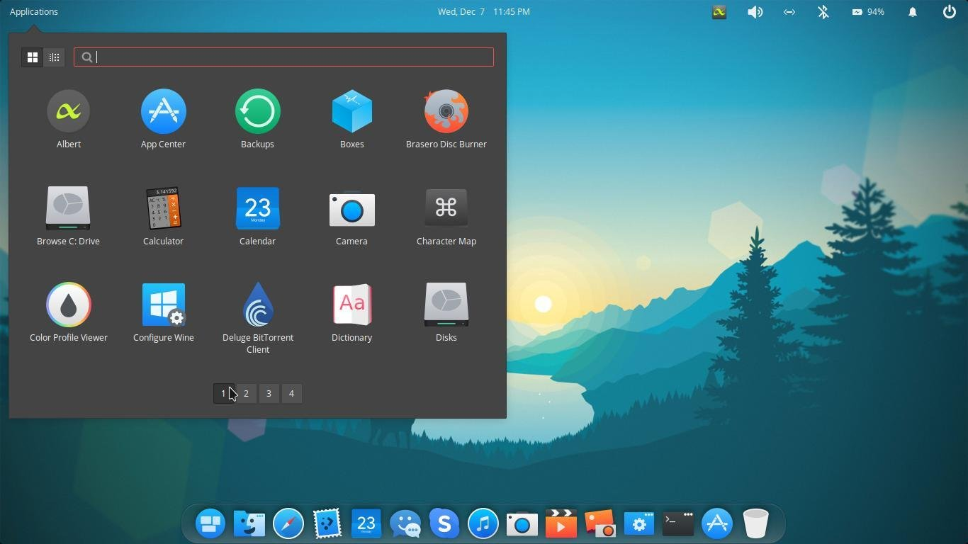 BackSlash Linux Elsa, Default look.